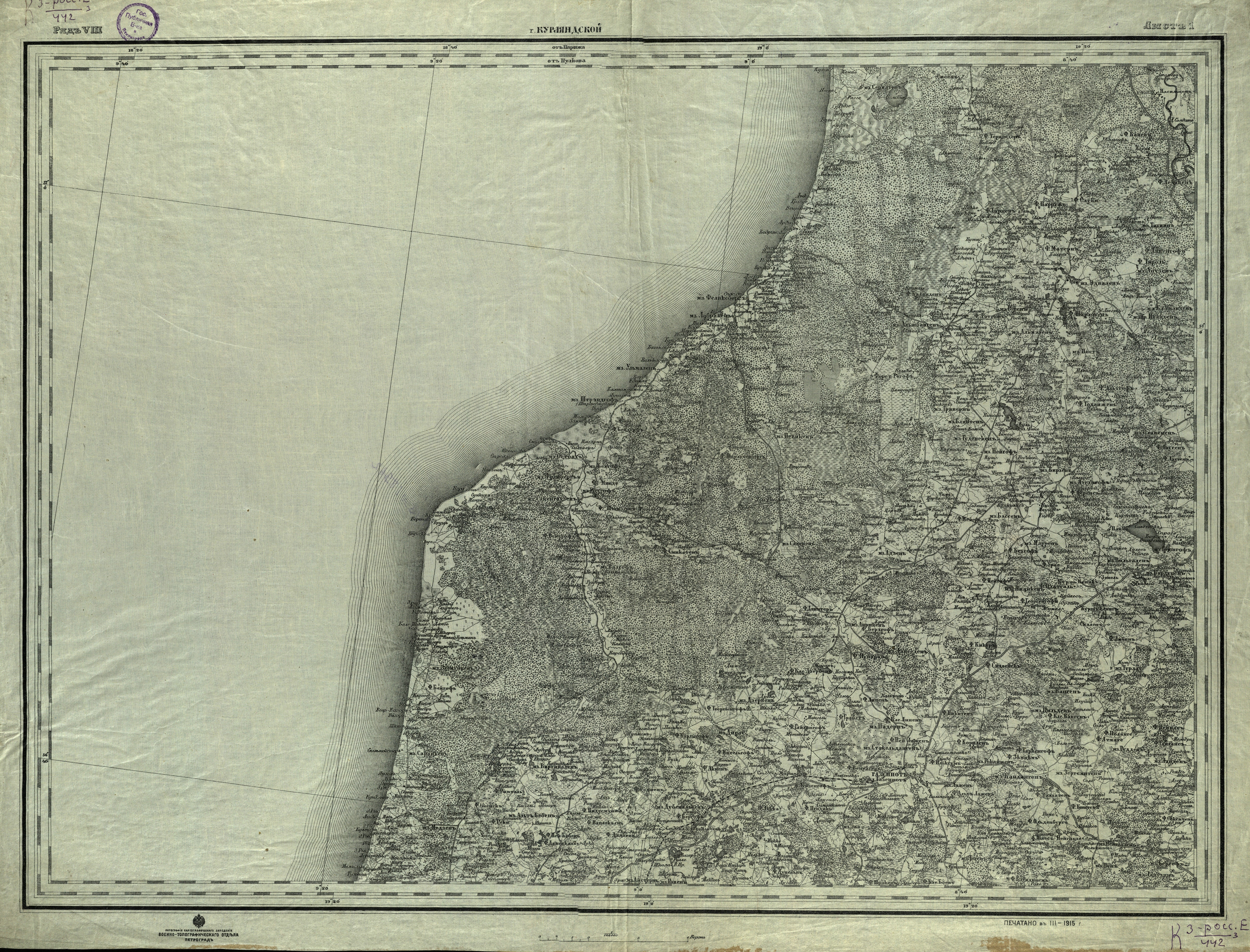 "Shubert's map". Fragment of topographic map of Russian Empire. 3 versta in inch (1260 m in 1 cm).